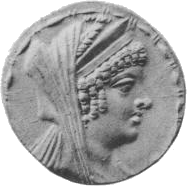 Coin of Cleopatra Thea